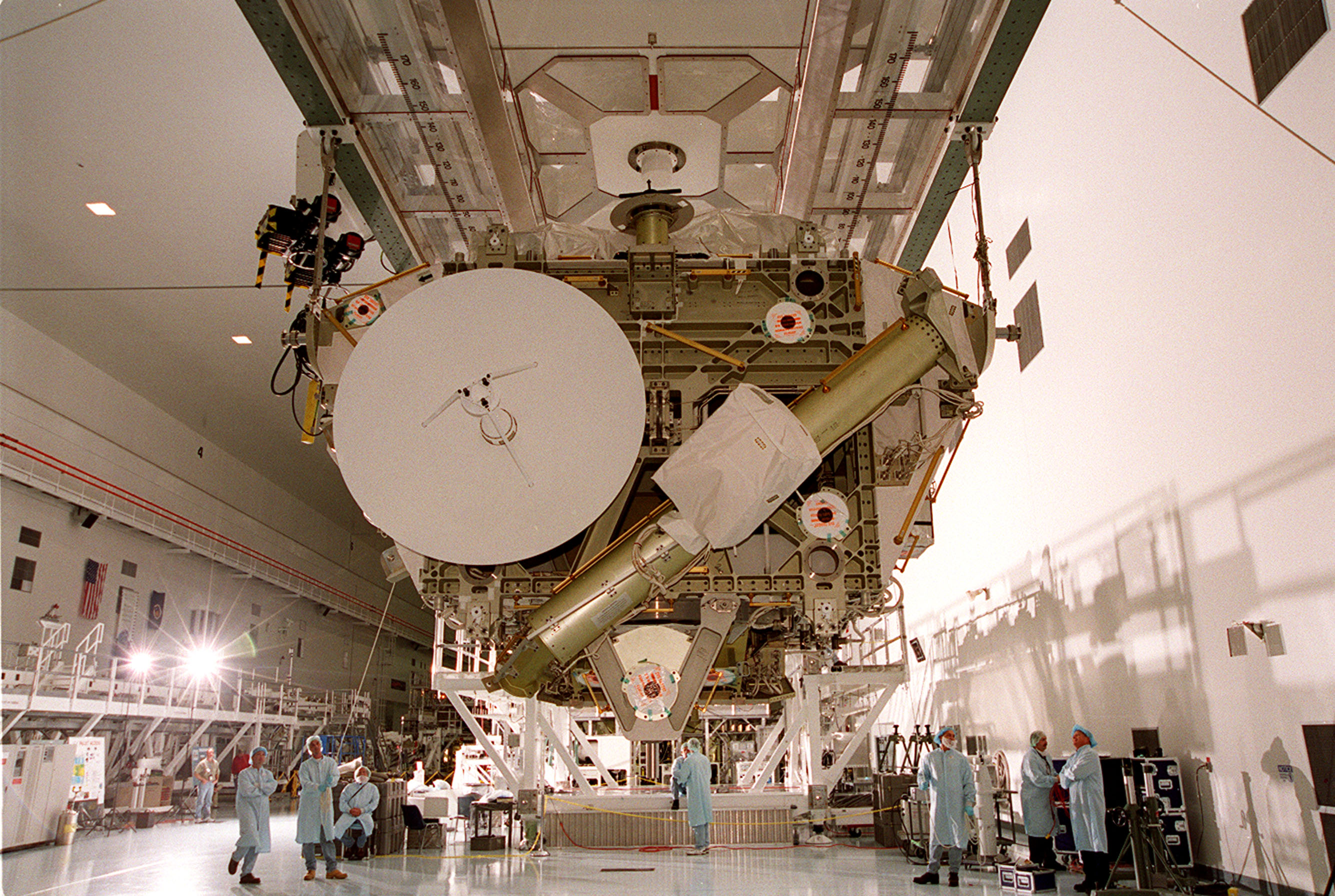 In the Space Station Processing Facility, workers watch as the Integrated Truss Structure Z1, an element of the International Space Station, is moved to another stand to check its weight and balance.